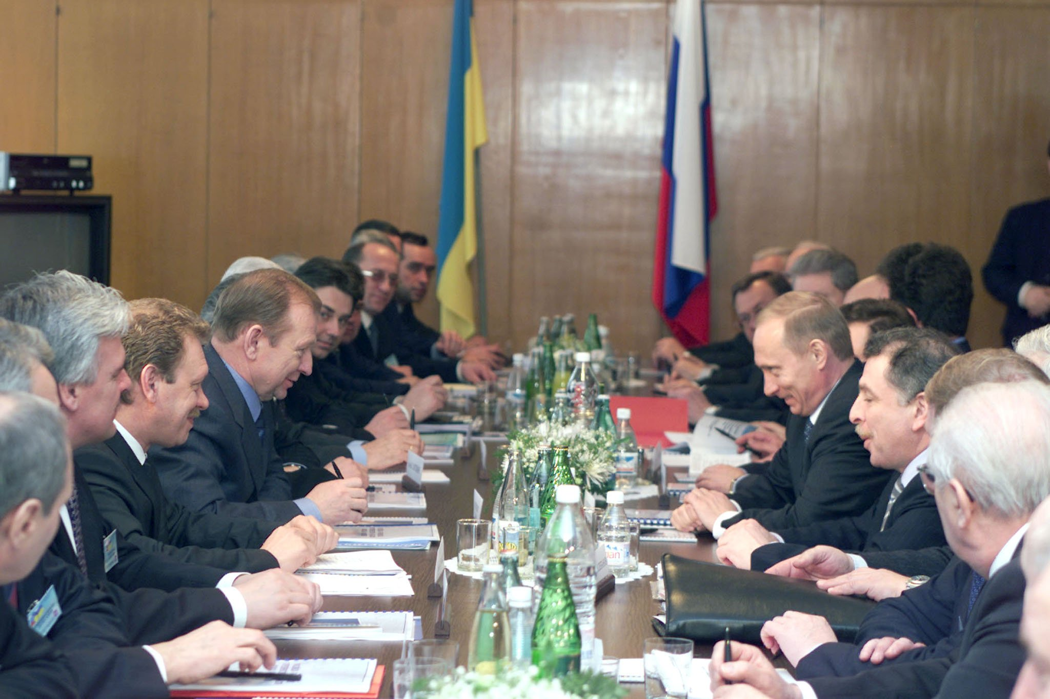 DNEPROPETROVSK, UKRAINE. Expanded Russian-Ukrainian top-level negotiations at Yuzhny Mashinostroitelny Zavod (South Machine-Building Plant).